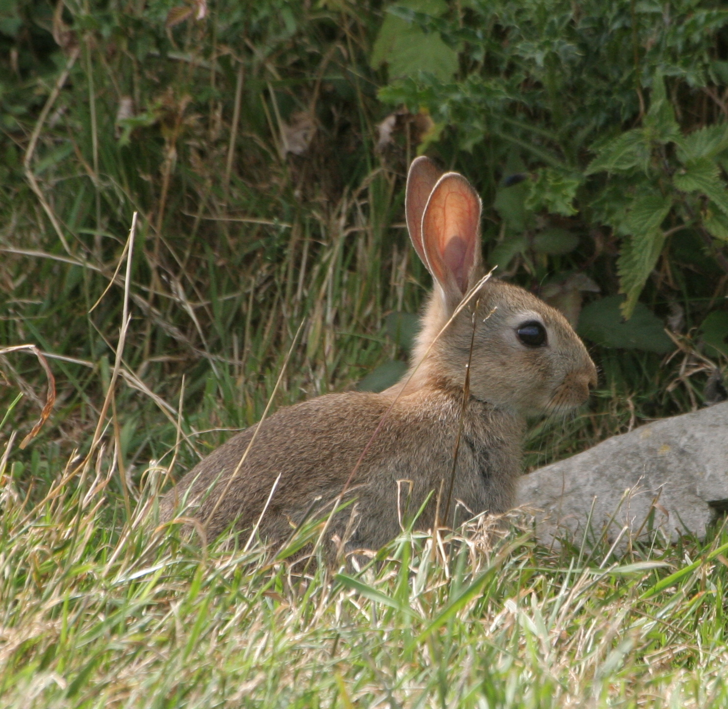 rabbit in fields between Portscatho and St Just, Cornwall